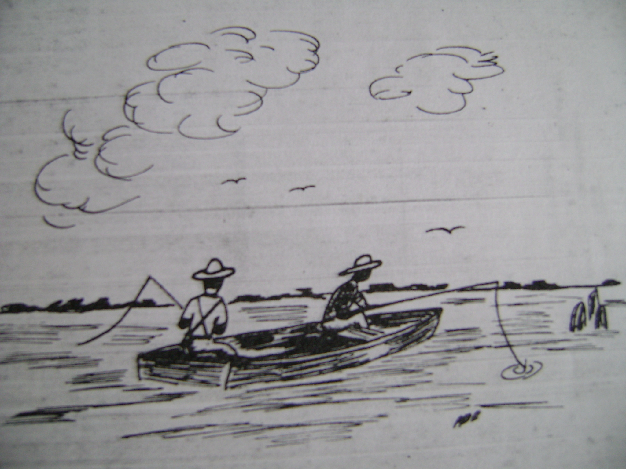 Depiction of Robert Francis Withers Allston fishing with John H. Tucker at Murell's inlet in 1816. Artwork done in 1860